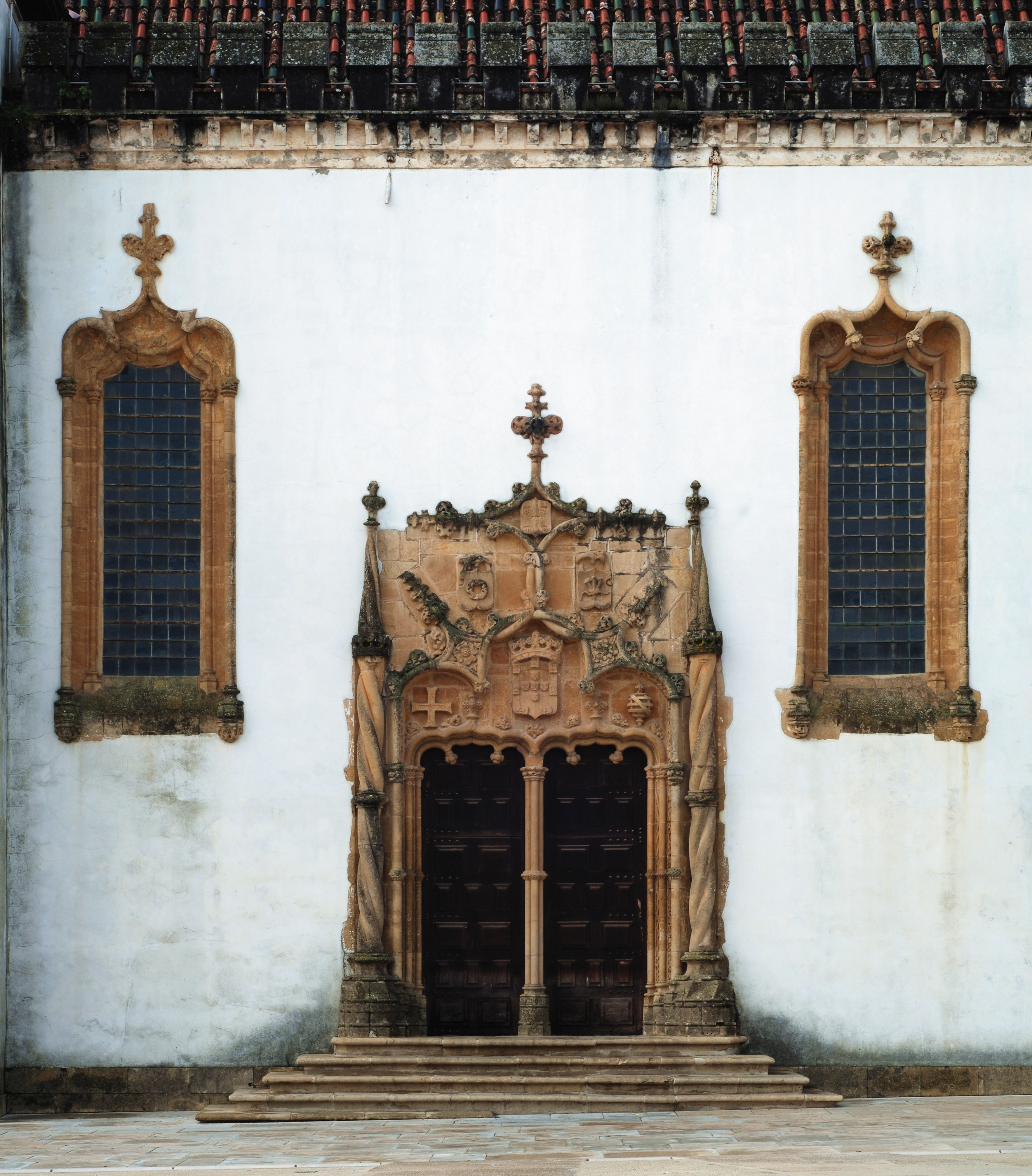 Manueline portal of the Chapel of Saint Michael. University of Coimbra, Portugal.